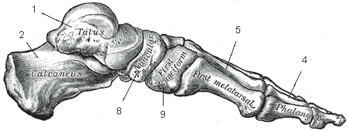 Foot bone medial view. Add number on Gray schema